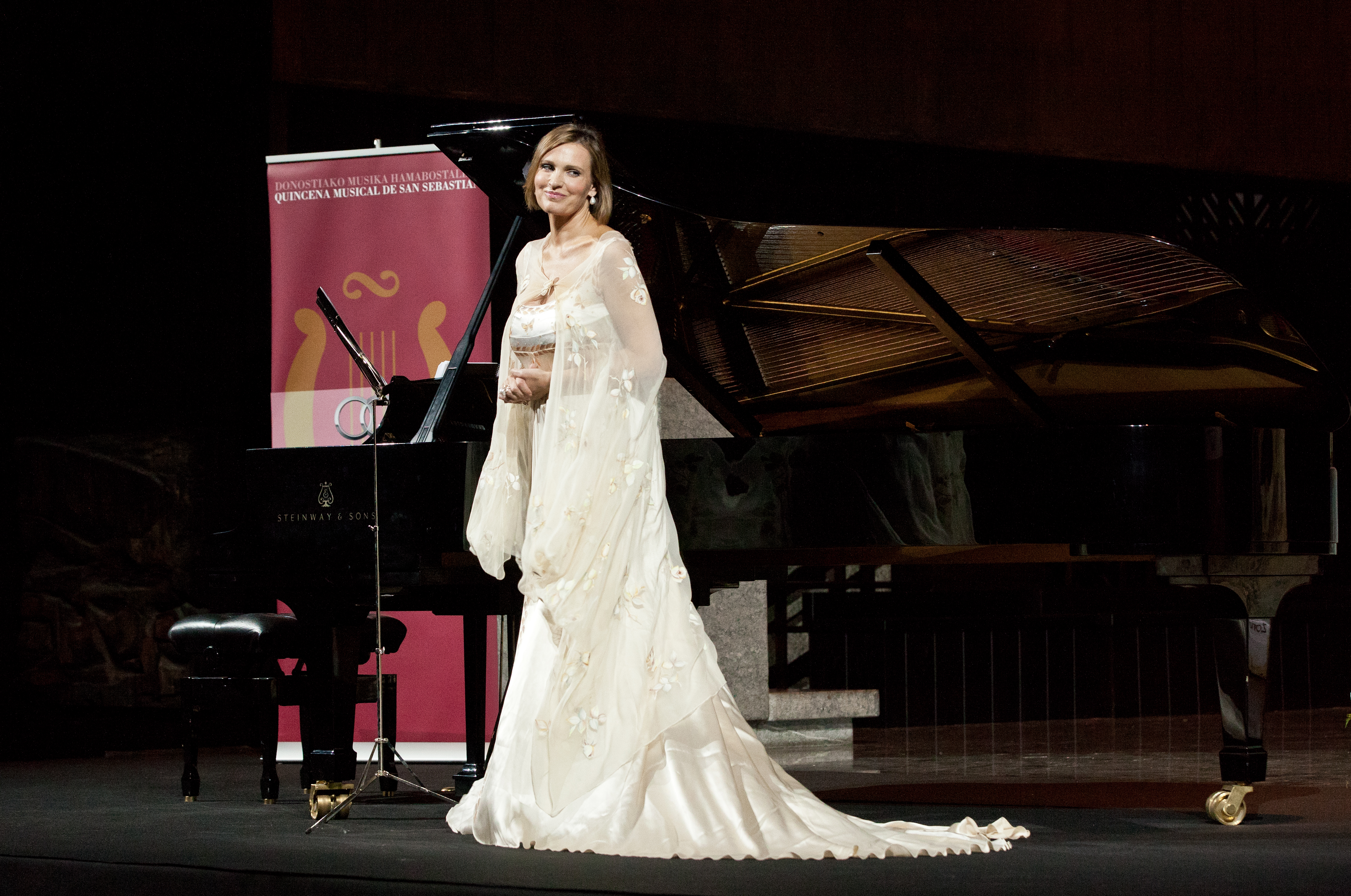 Photo on Flickr of Ainhoa Arteta at the Quincena Musical released with "Some Rights Reserved" (CC BY 2.0). Os informamos de que la Quincena Musical de San Sebastián está en esta edición en la plataforma de imágenes Flickr, en la que cada día carga fotos de conciertos, ensayos y otros momentos del Festival. Estas imágenes están a disposición de los medios de comunicación, así como del público general, y el acceso y uso de las mismas es gratuito. El único requisito para su utilización es firmar las fotos como Quincena Musical / Iñigo Ibáñez.